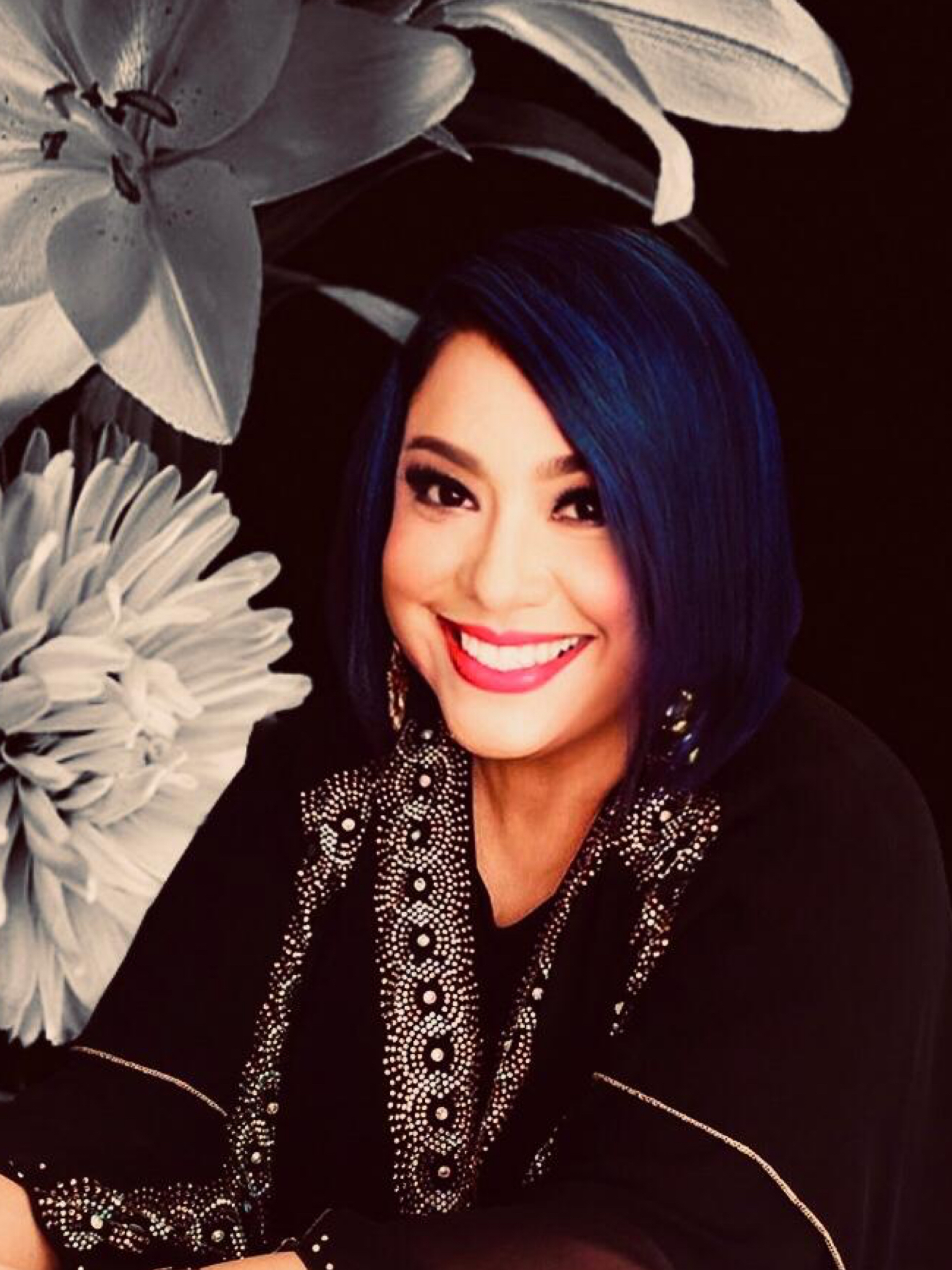 Francissca Peter latest photo in 2019